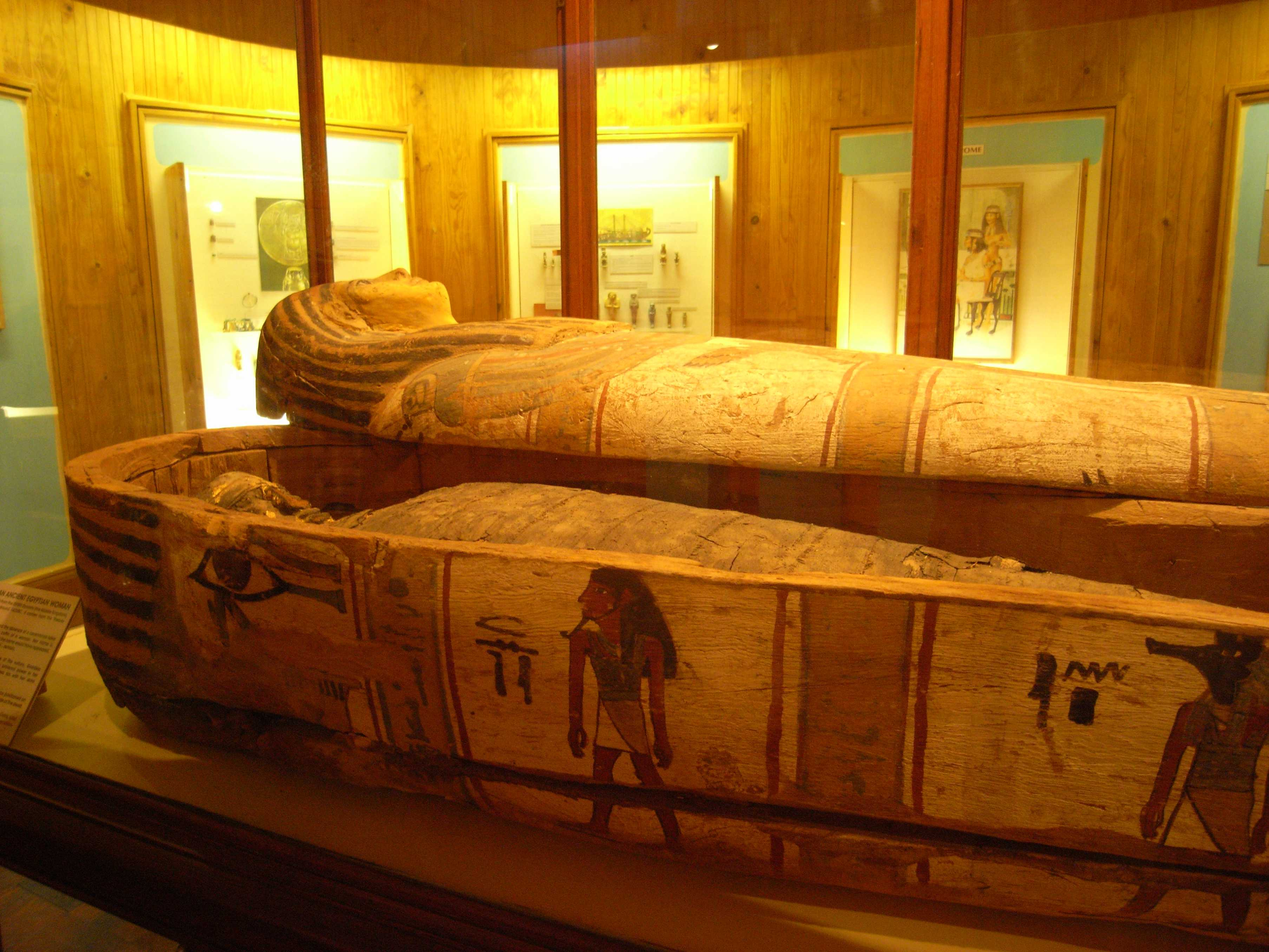 Albany Museum Grahamstown (RSA), egyptian mummy (Schönland collection)